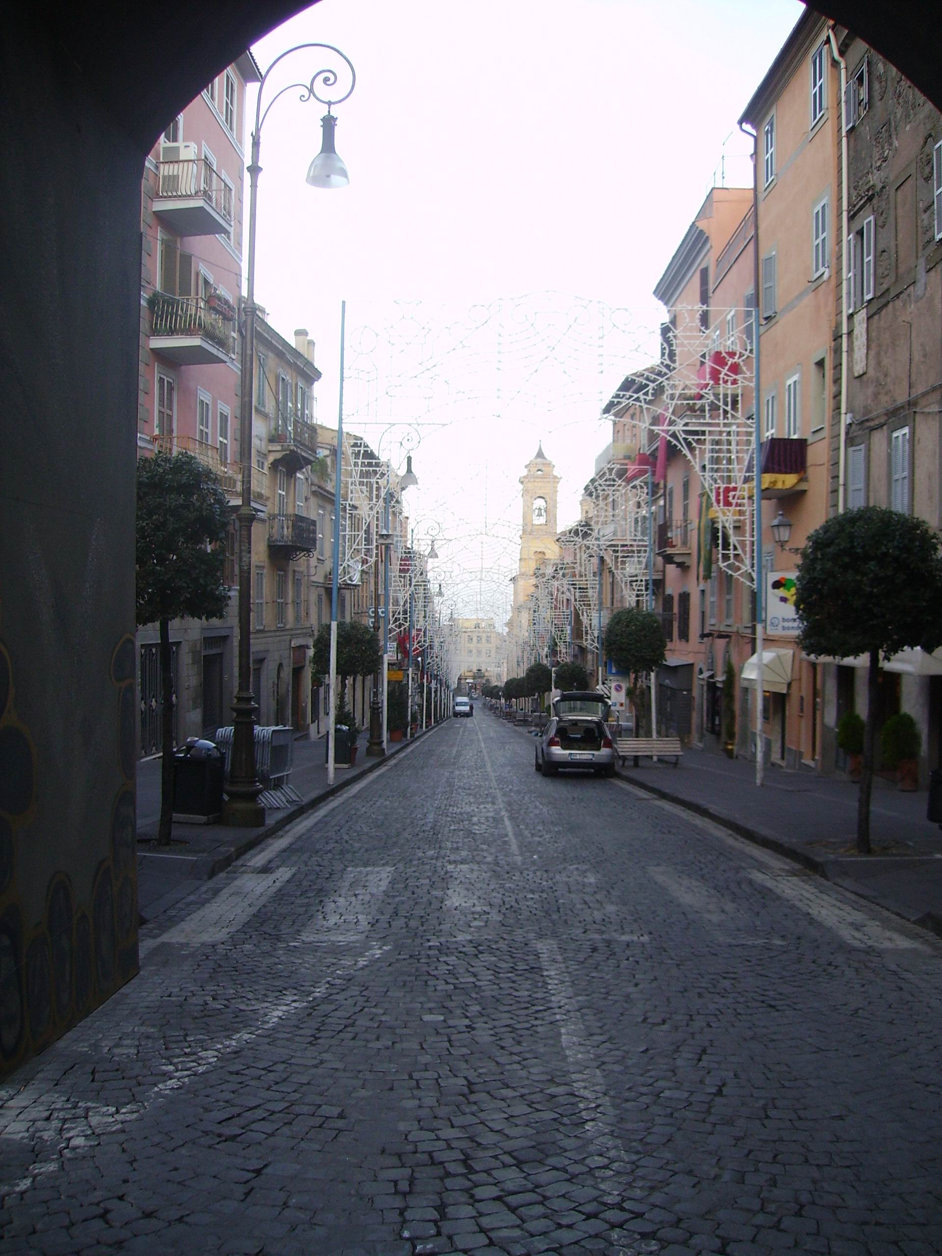 Corso Trieste